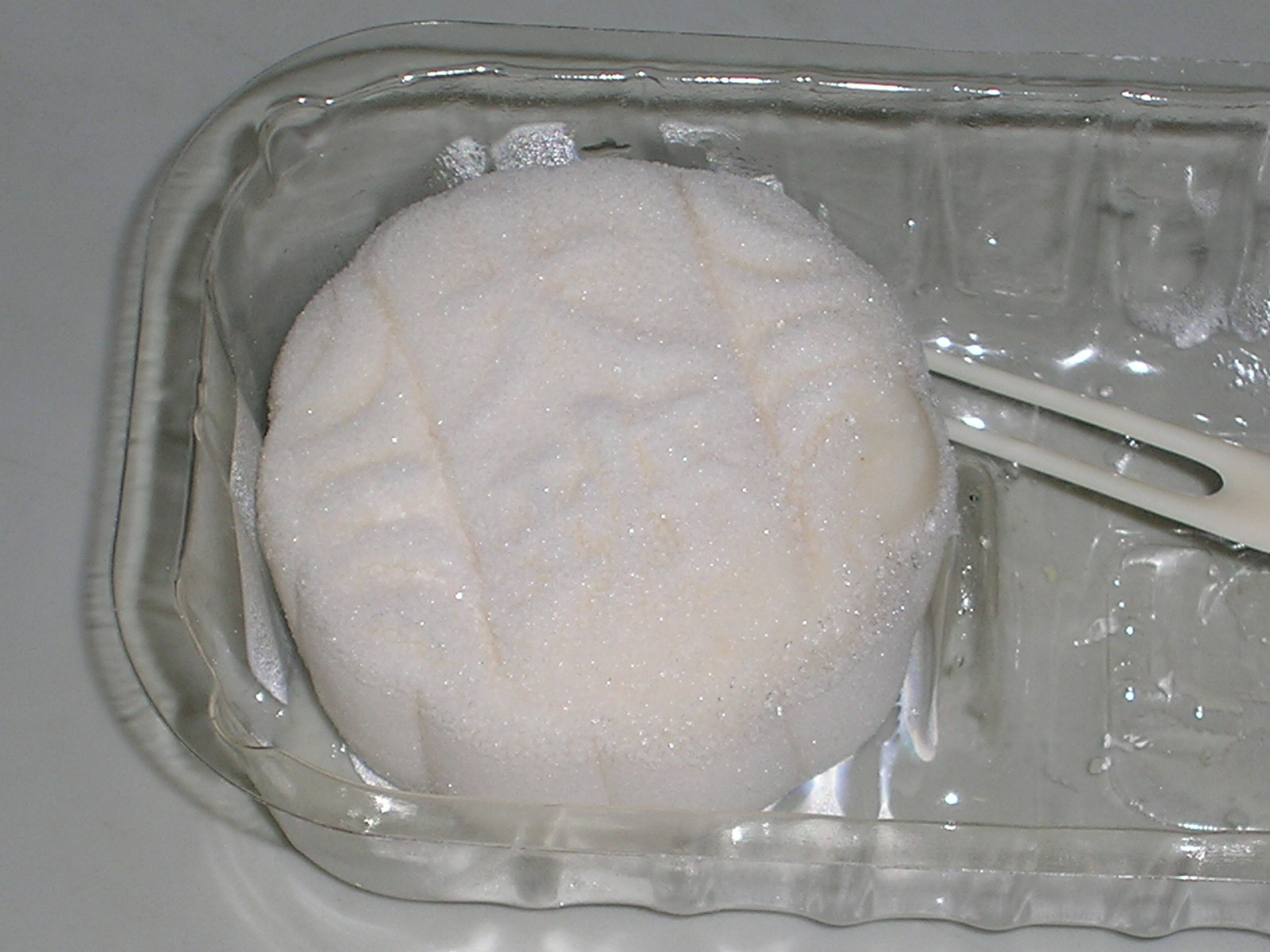 Mini Snowy Mooncake with Mung Bean Paste